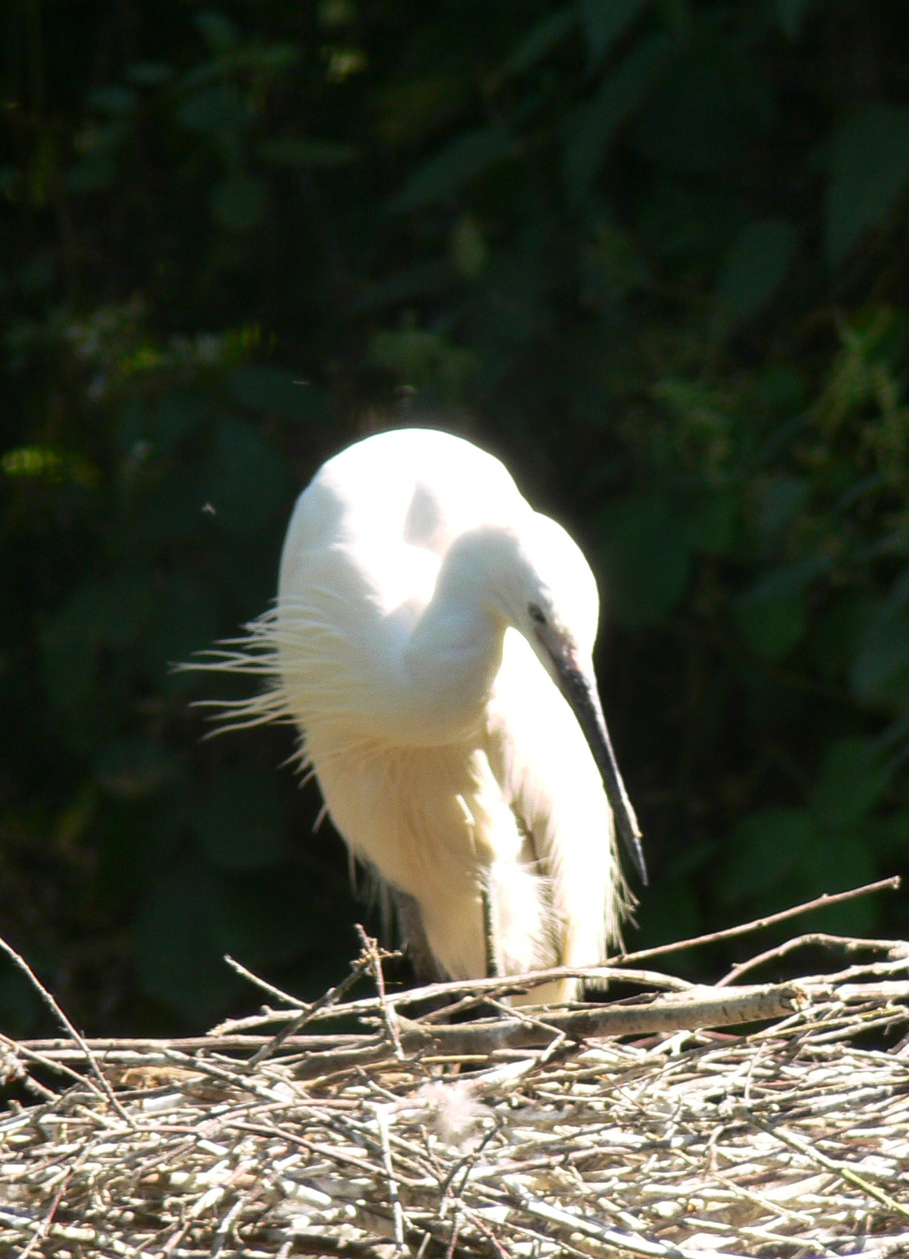 Ardea alba), Wildwood Discovery Parkrecently calledWildwood Trust,in Kent (United Kingdom)